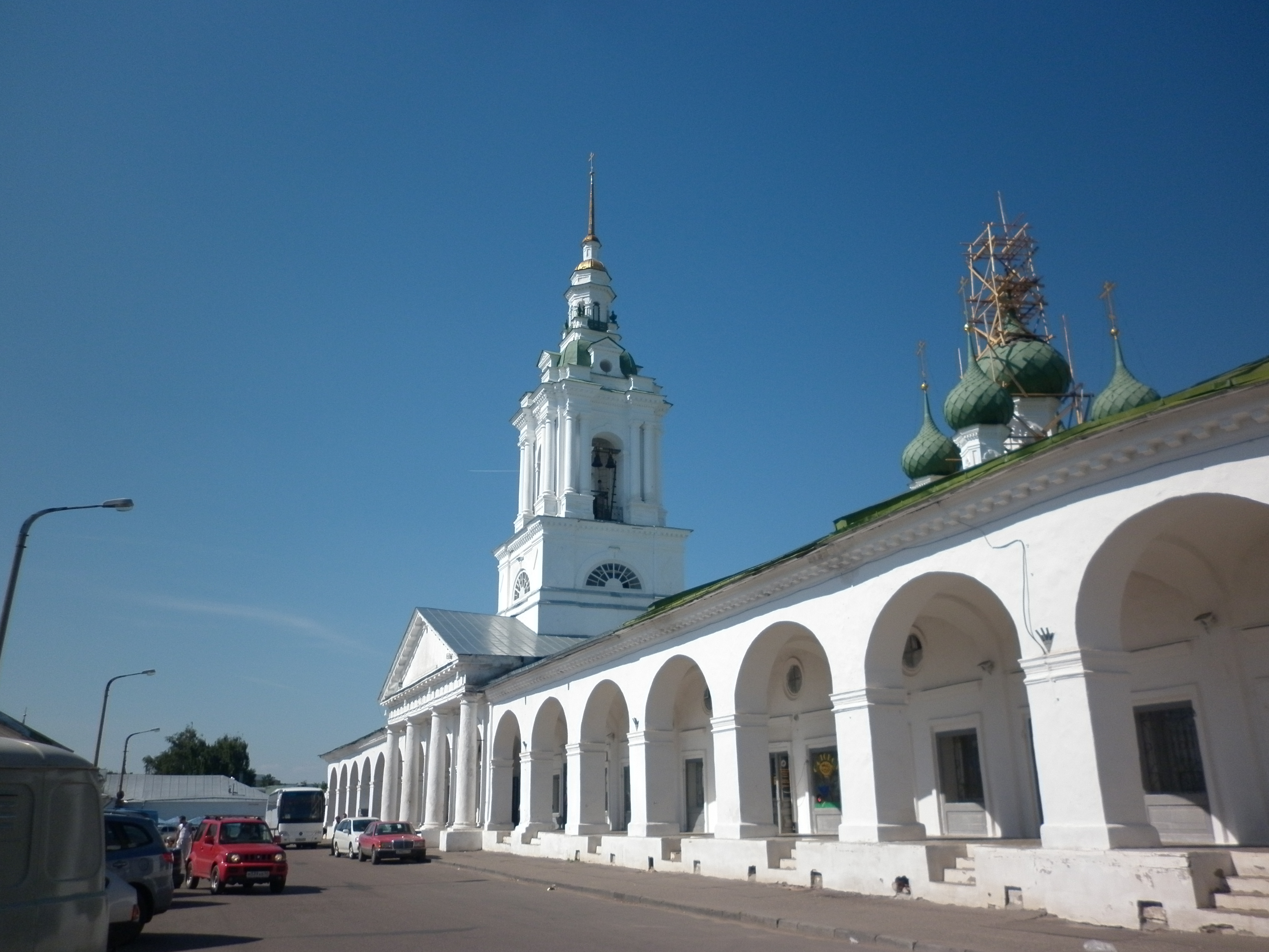 Колокольня возведена во время постройки рядов взамен прошлой.